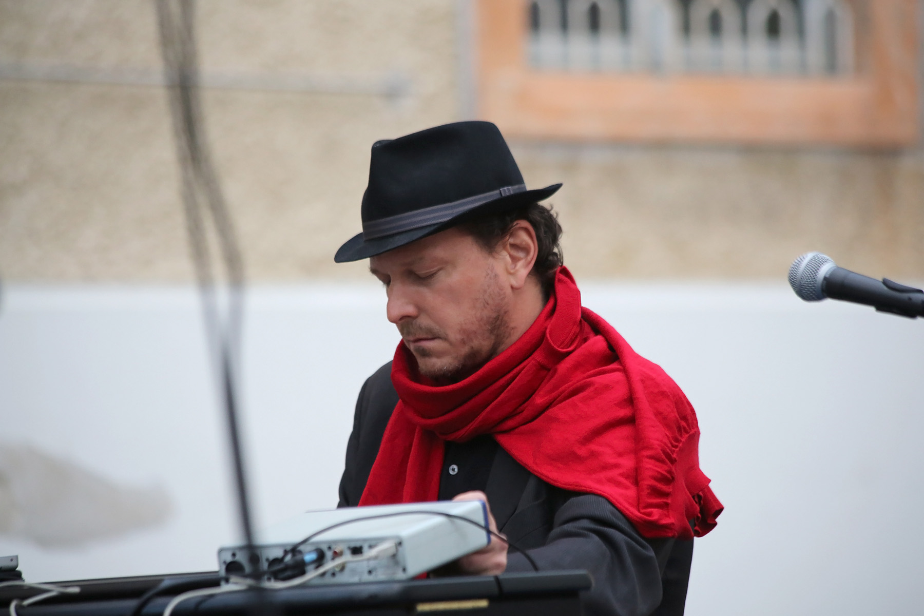 Rupert Huber - concert at "Pianistengasse" 2014 in Vienna, Austria.